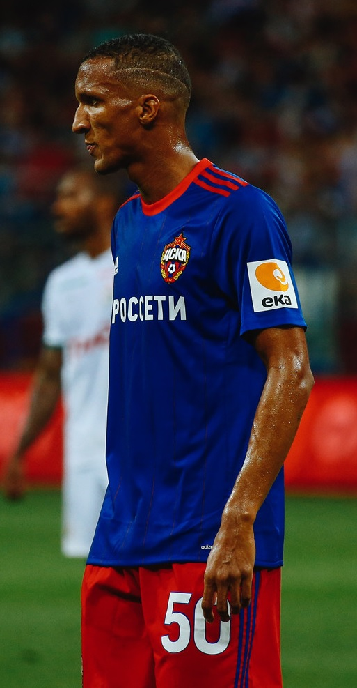 Rodrigo Becão with PFC CSKA Moscow in a 2018 Russian Super Cup game against FC Lokomotiv Moscow.